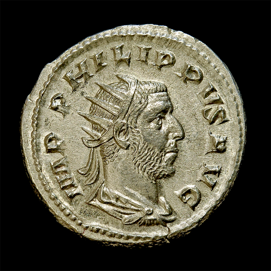 Ancient Roman Coin, Reverse. Philip, emperor 244-249 A.D.